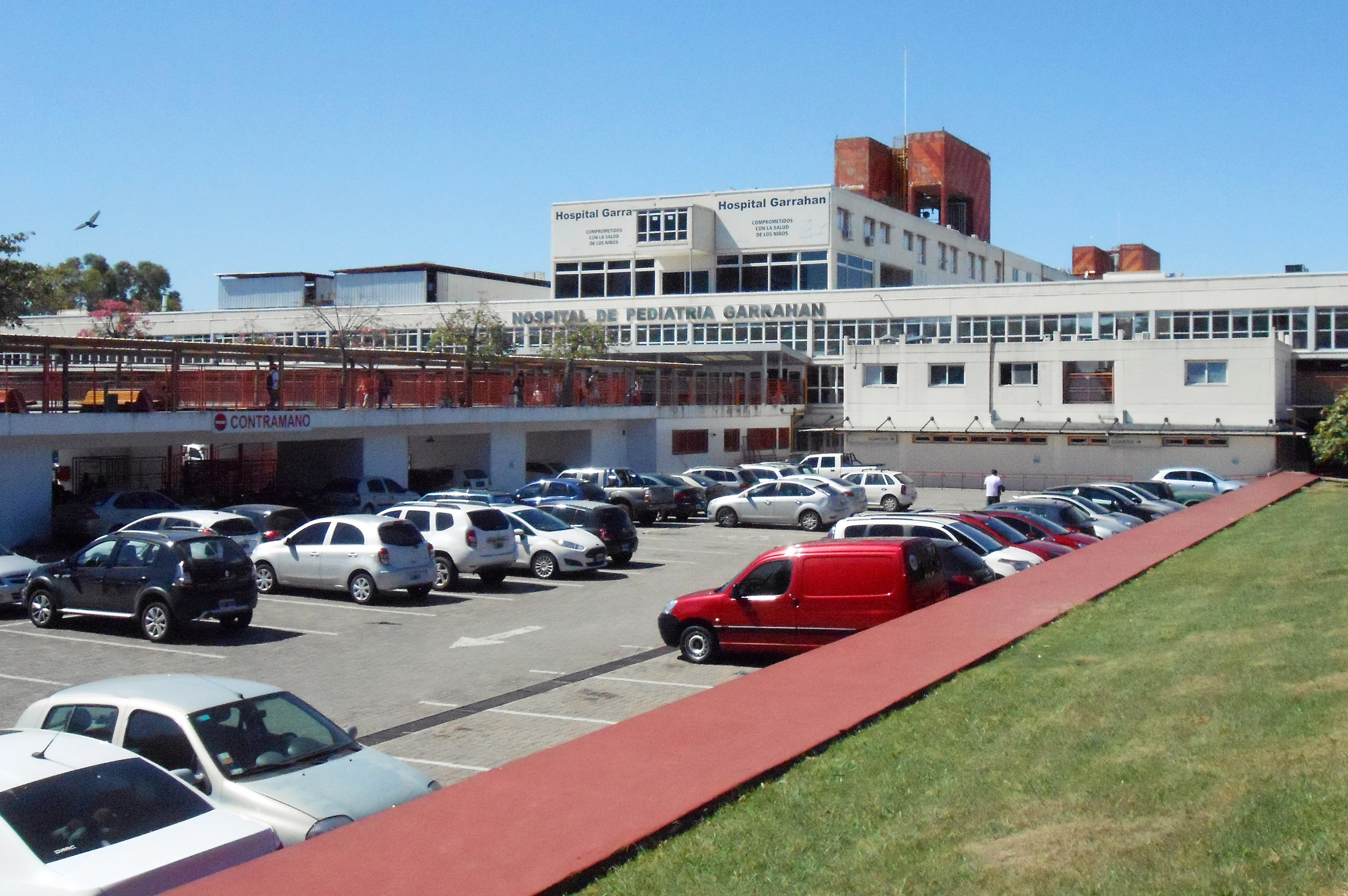 Children's Hospital "Prof. Dr. Juan P. Garrahan" - Buenos Aires - Argentina